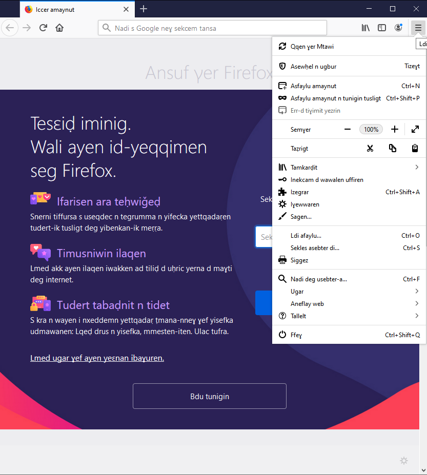 Screenshot of the firefox browser in Kabyle